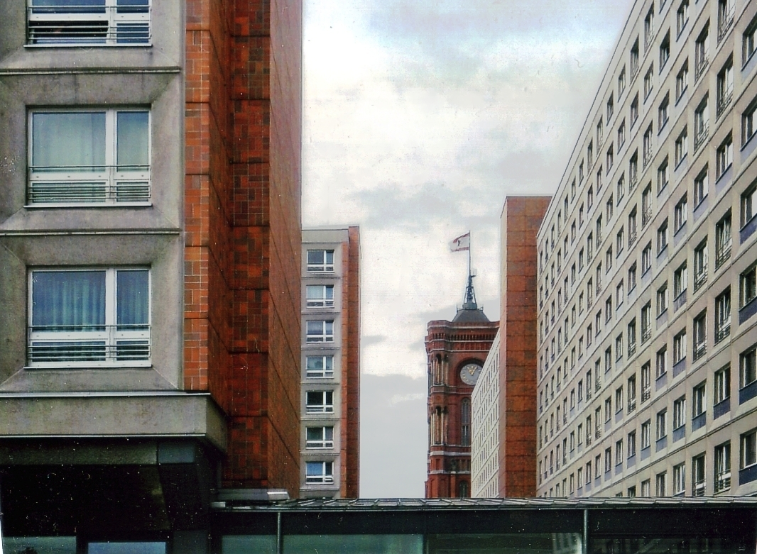 The so called "Rathauspassagen" in Berlin-Mitte (Germany), erected 1967-73. View to some of the buildings and to the tower of the so called "Rotes Rathaus" (Red town-hall).